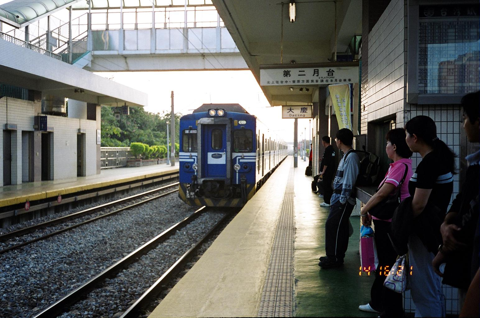 EMU524 train arrived Dacing Station.